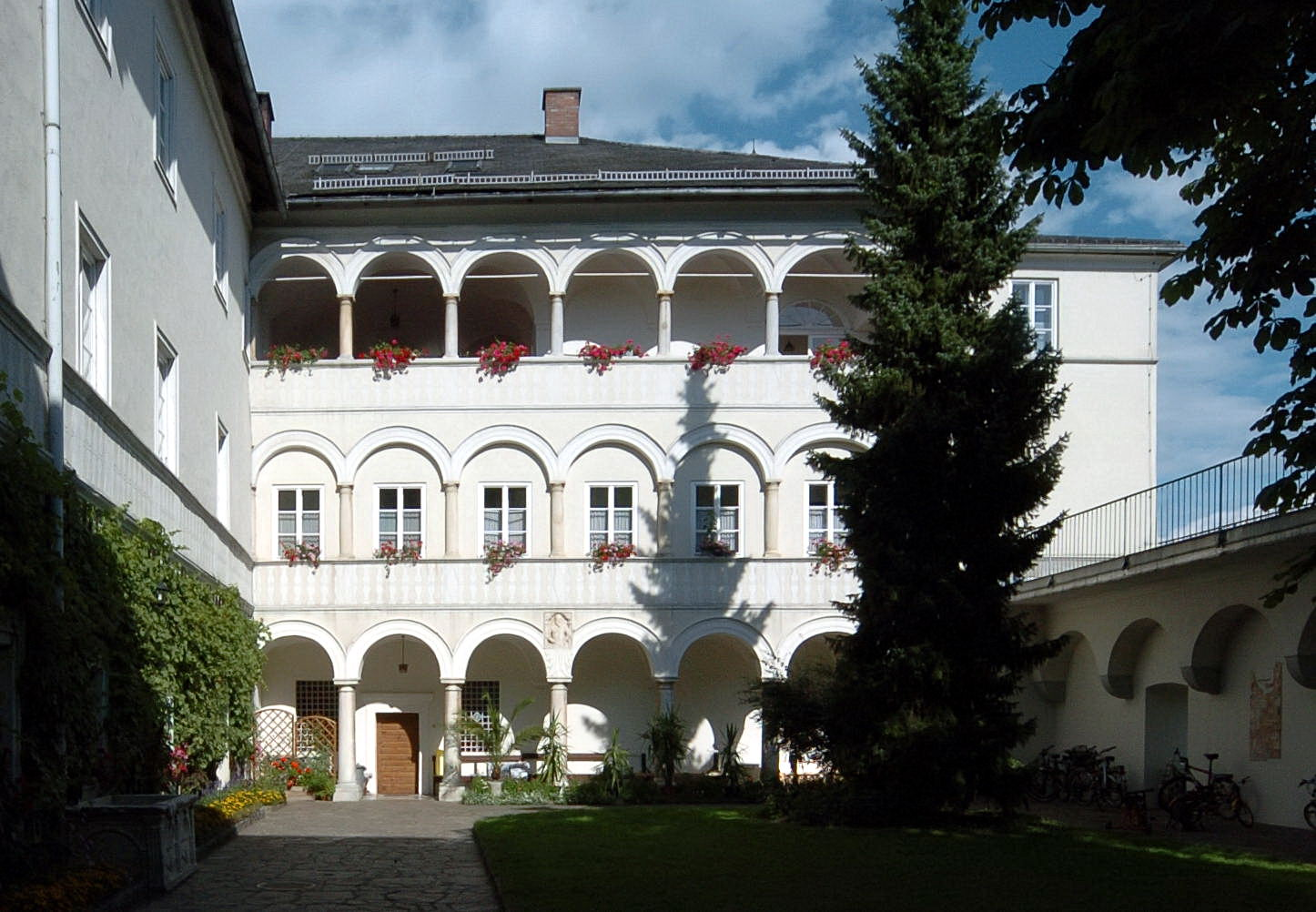 Renaissance arcades at the monastery`s courtyard of castle Wernberg, Klosterweg #2, municipality Wernberg, district Villach Land, Carinthia, Austria, EU